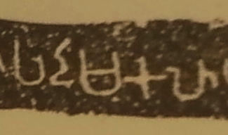 Parumakal (No. 331)